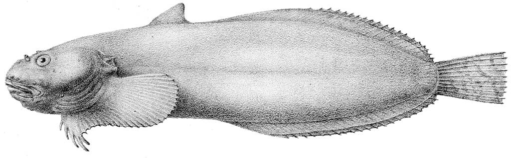 Liparis mucosus